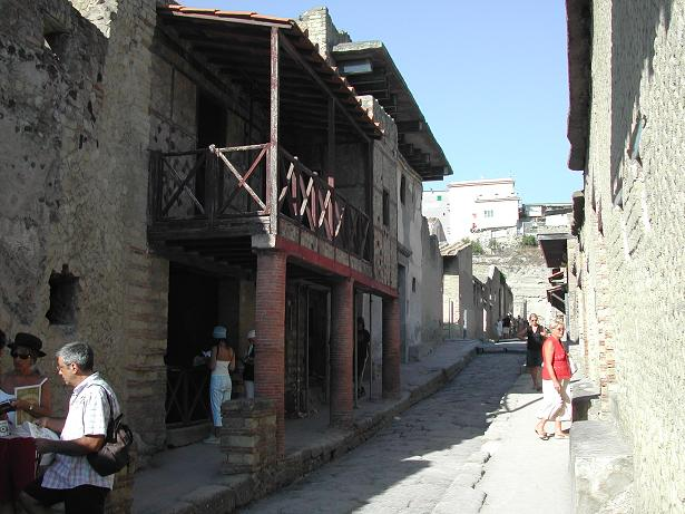 The House of Opus Craticium, Herculaneum, Italy. A reconstruction of an ancient Roman building technique now called half-timbering. Technically Opus Craticium is wattle and daub wall infill but this stone infill is often called by the same name. Their is not a direct connection between this Roman building technique and half-timbering which came into use in Europe by the 12th century. Opus Craticium was mostly used for interior partition walls, this is the only surviving example where this technique was used for the whole house.